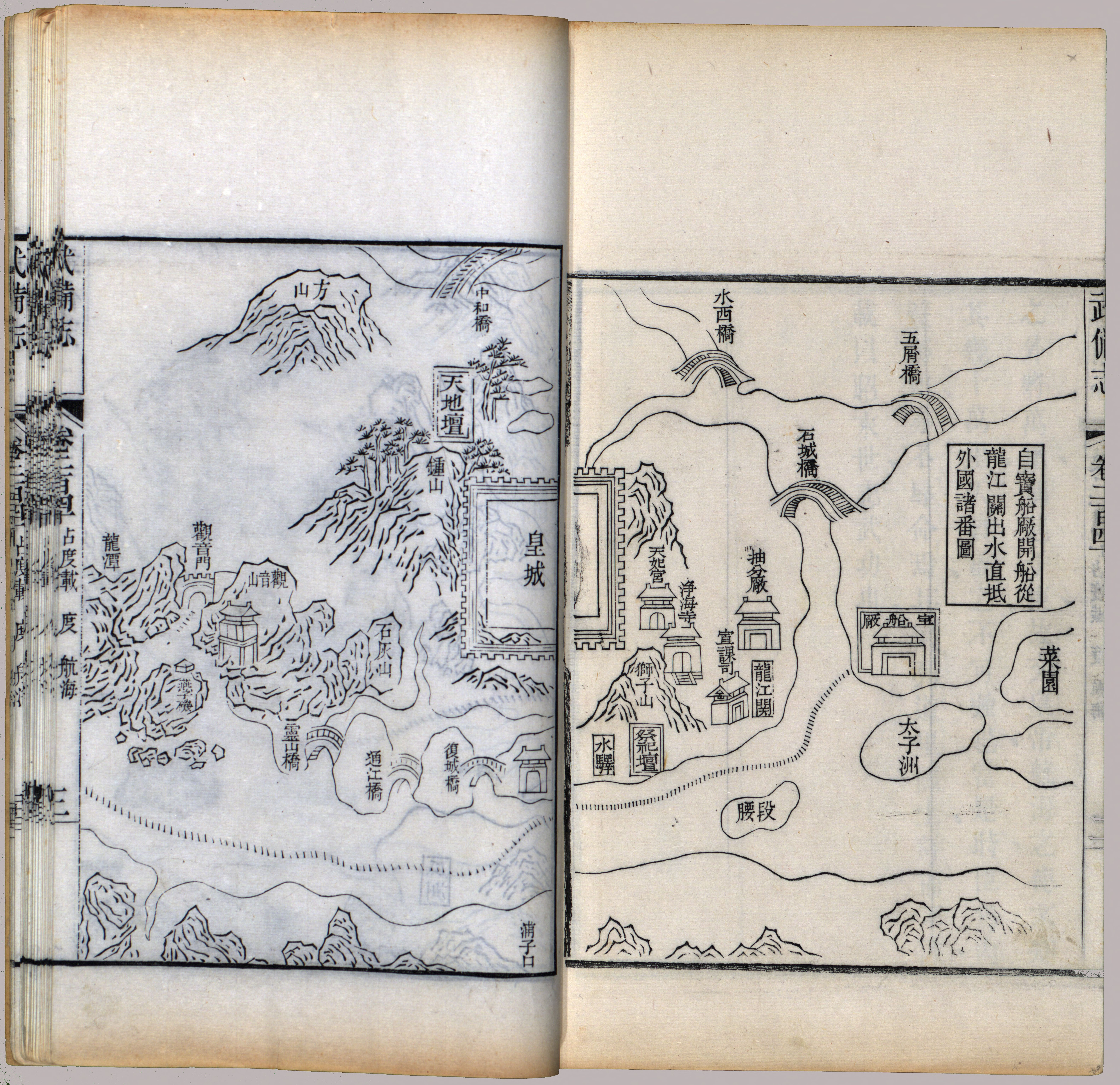 Wood block print. "Juan 240" shows Zheng He's voyager route from Nanjing, passing through South East Asia, Indian Ocean, Red Sea, all the way to Persian Gulf. Early Qing Dynasty ed., prefaced Tianqi 1 (1621). Juan (chapter) 240 is one of 80 volumes in 8 cases (30 x 19 cm.). "Wu bei zhi juan er bai si shi." Available also through the Library of Congress Web site as a raster image. The 80 vols. set is kept in Chinese Rare Book Cage. On double leaves, oriental style.